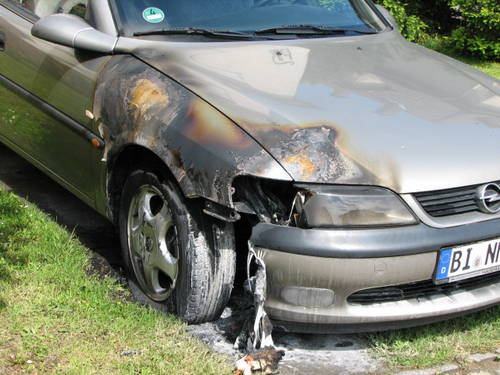 A car after an fire in Bielefeld